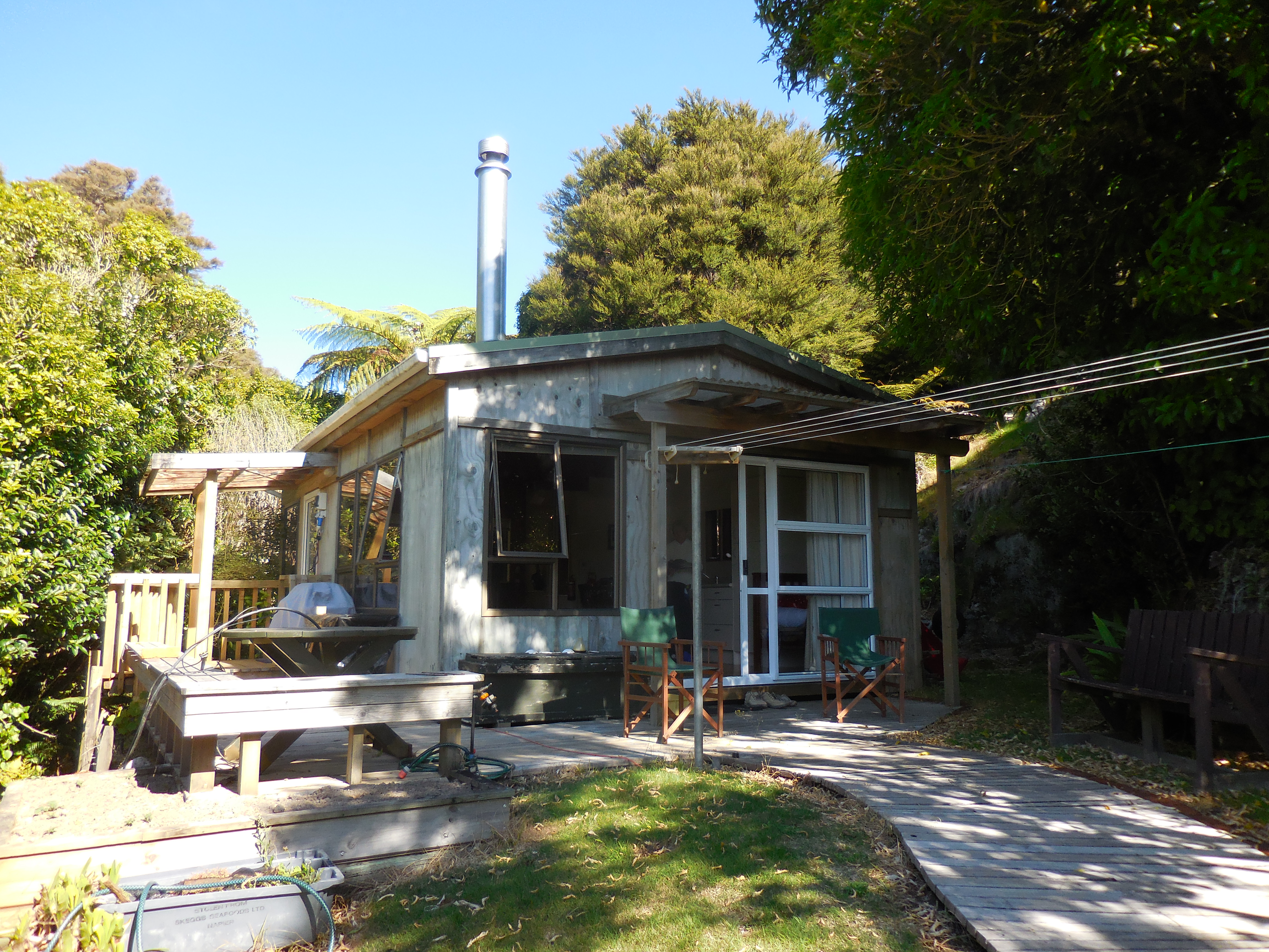 Bach at Anchorage, Abel Tasman trail, National Park, South Island, New Zealand